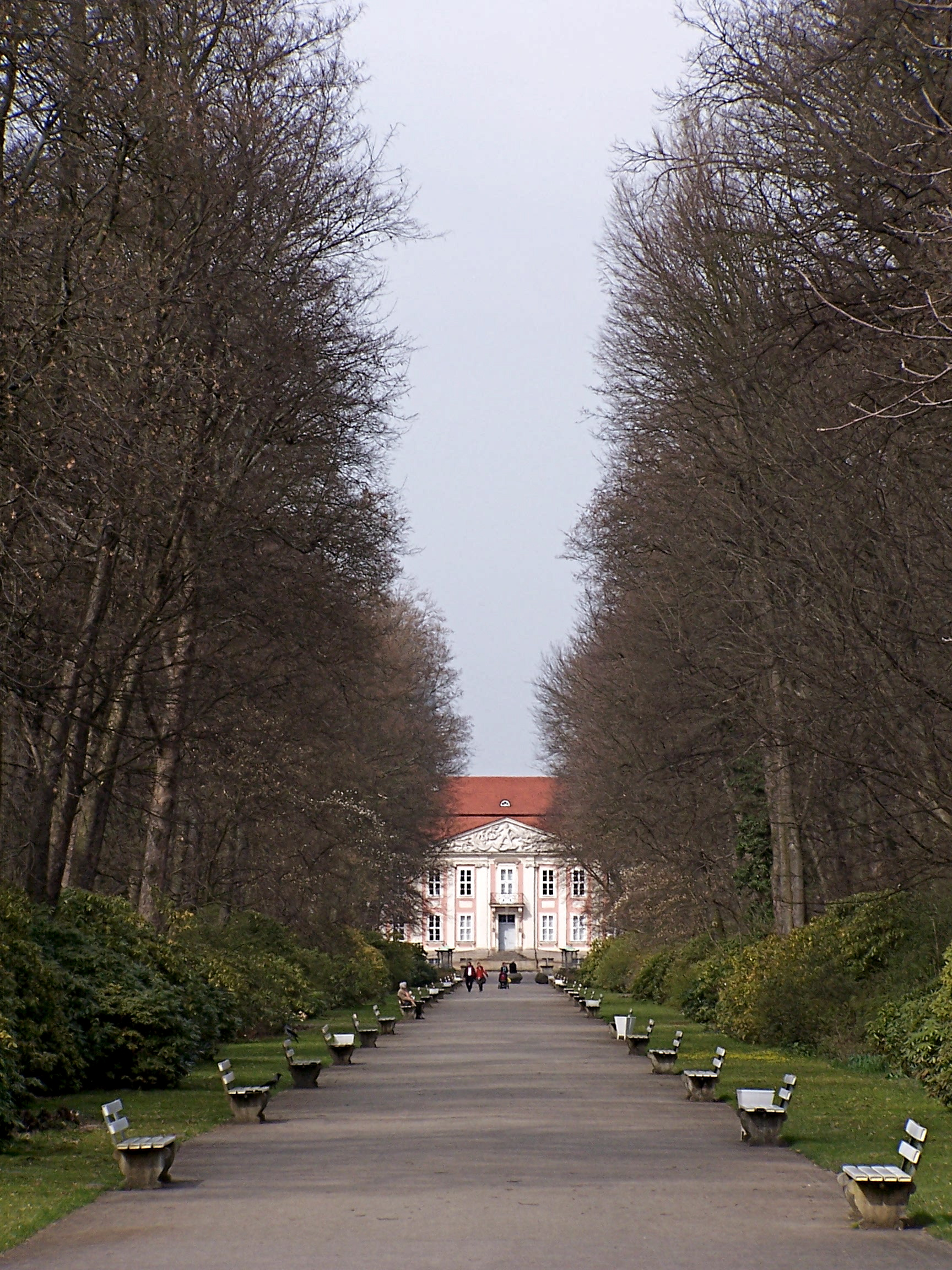 Long way towards Schloß Friedrichsfelde